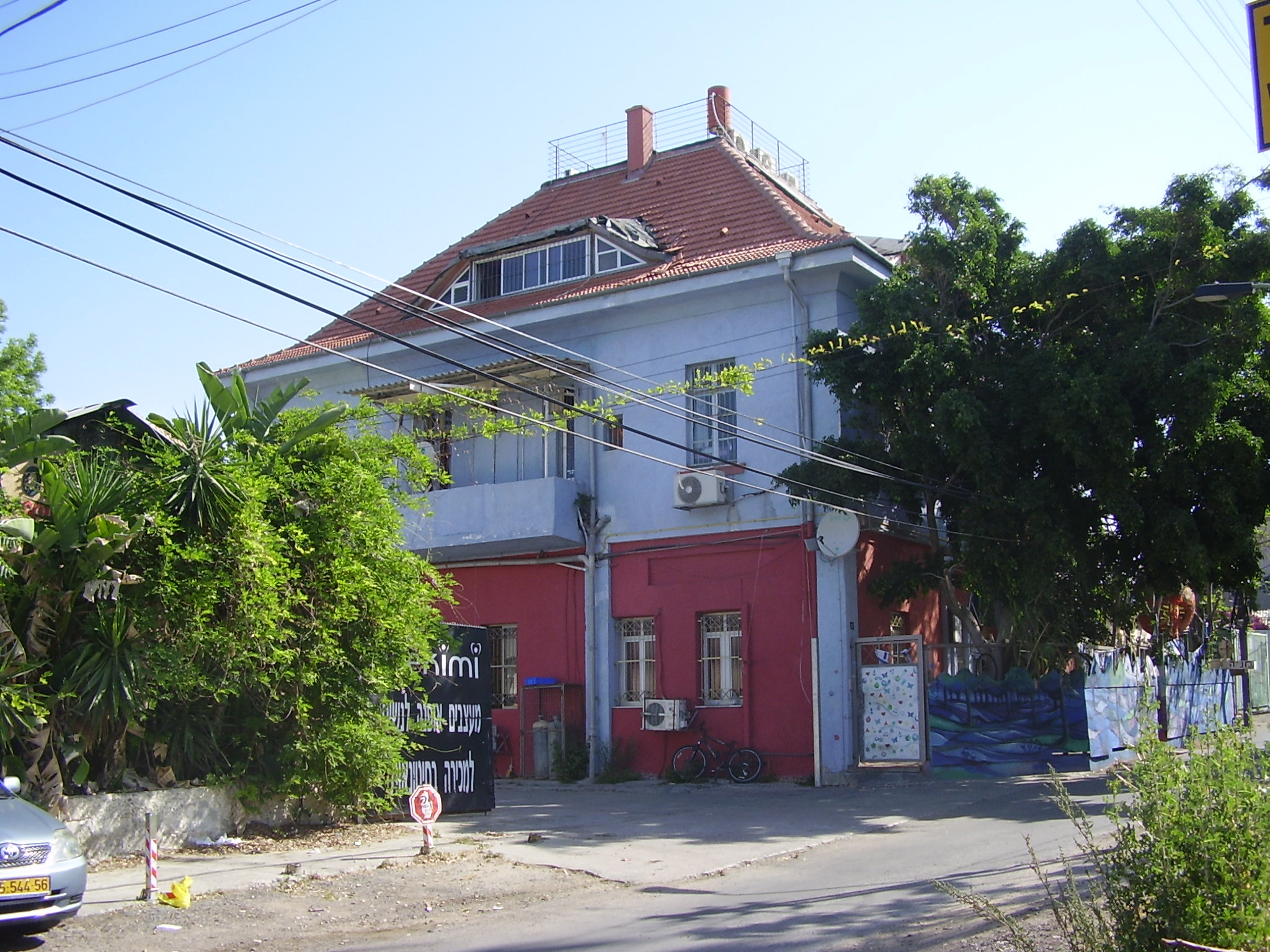 old german-templers house in walhalle neighborhood, near neve zedek, tel-aviv